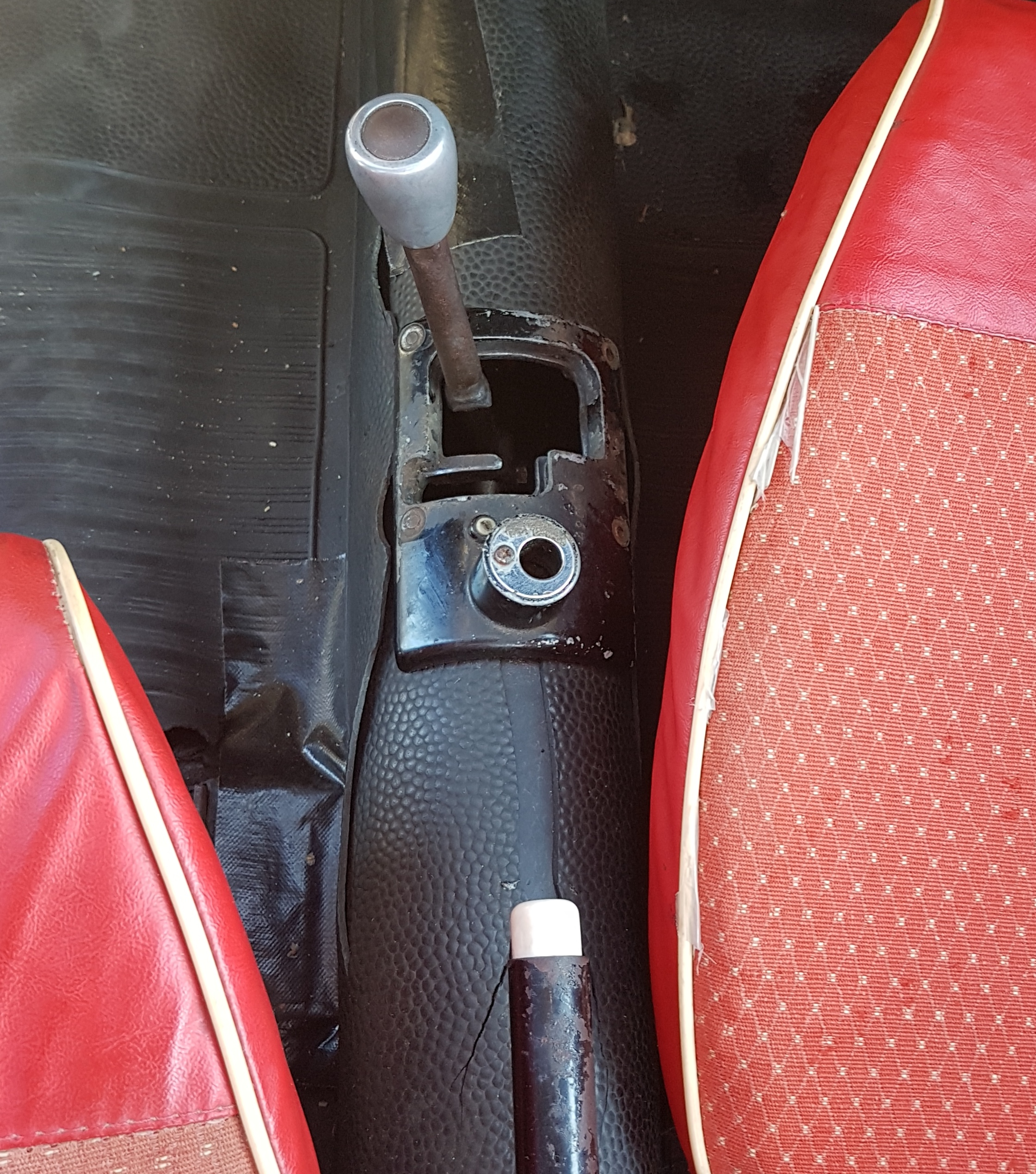 Goggomobil (short: Goggo), microcar of the Hans glass GmbH in Dingolfing, design: "Limousine".